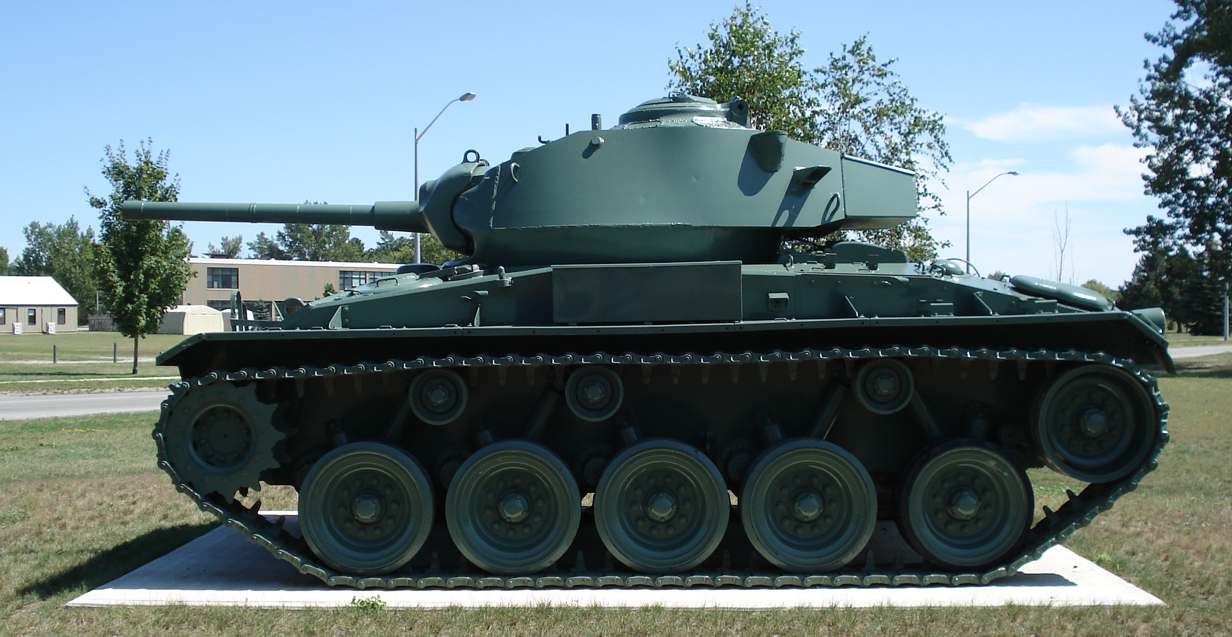 M24 Chaffee light tank. This example is displayed on the grounds of CFB Borden (Base Borden Military Museum). Photo taken on August 12, 2006. Source: Photo by me, User:Balcer.